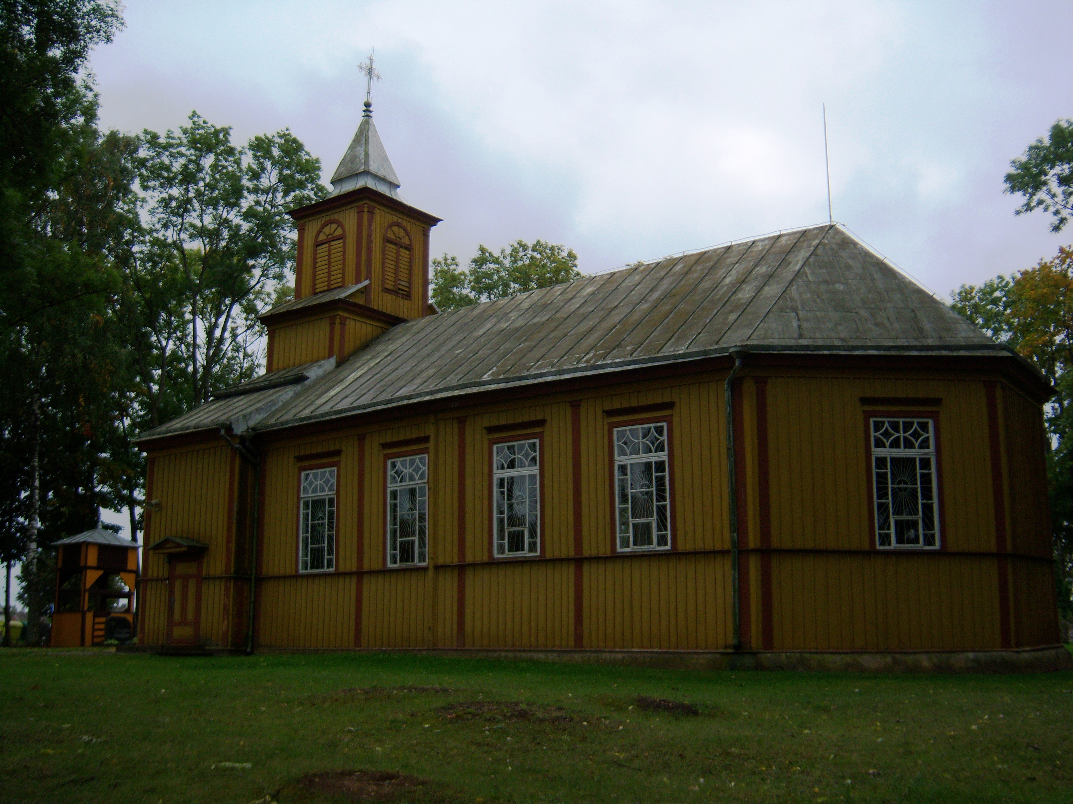 Roman Catholic Church, Alksnėnai, Vilkaviškis District, Lithuania